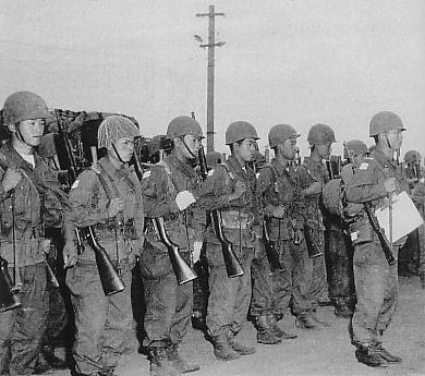 Military exercise of NSF(National Safety Force of Japan)